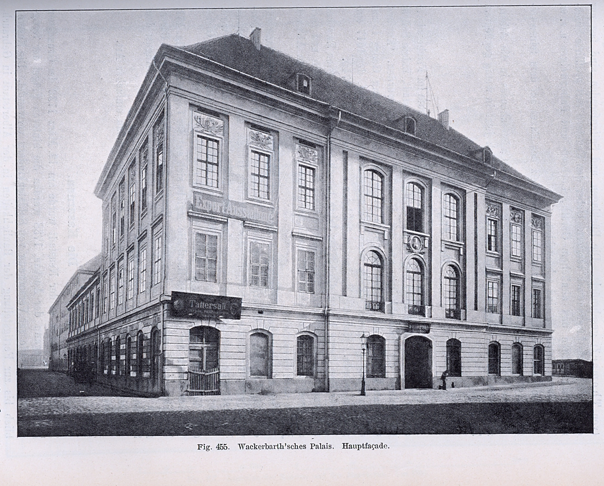 Dresden